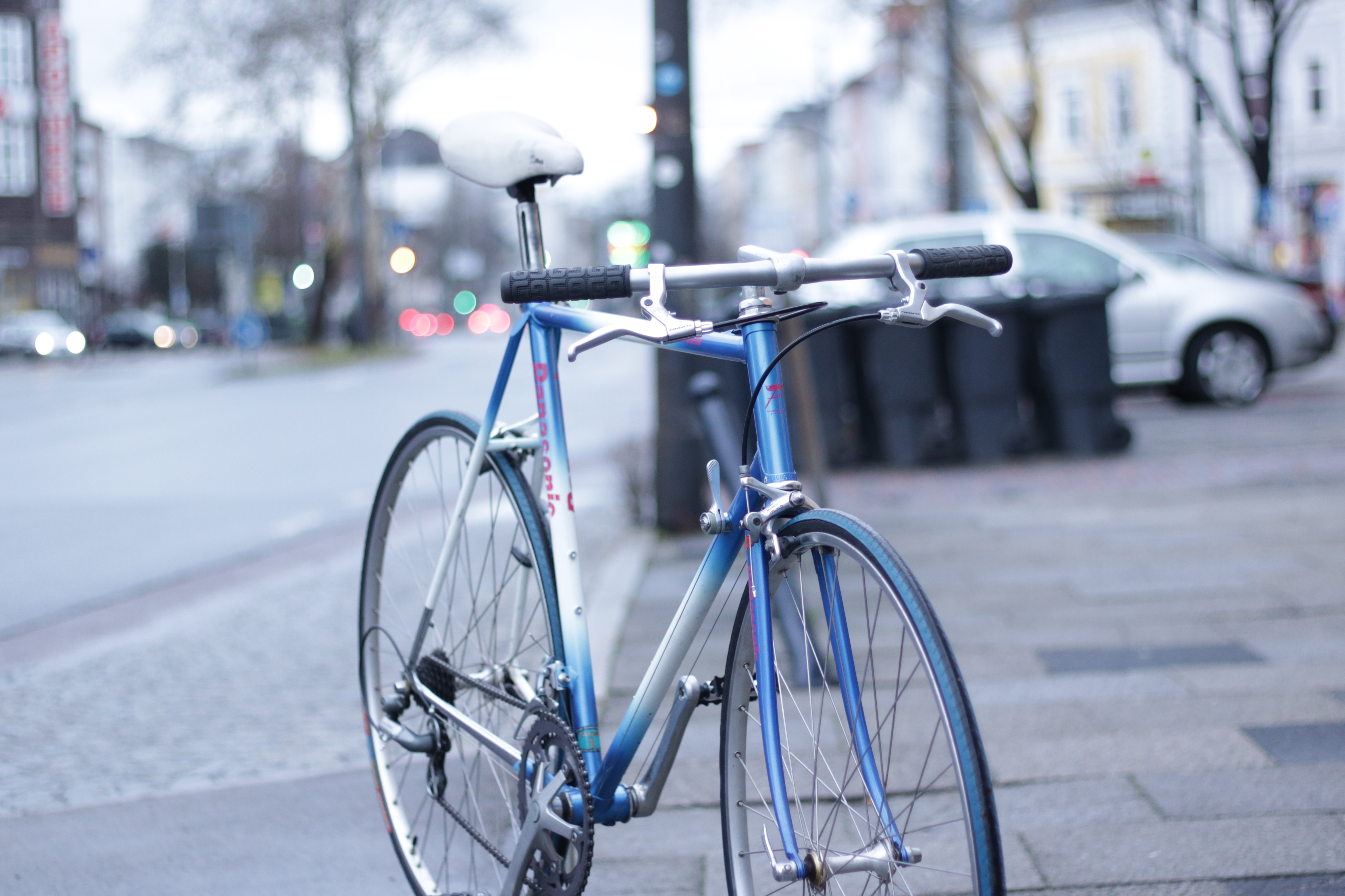 Panasonic Roadbike